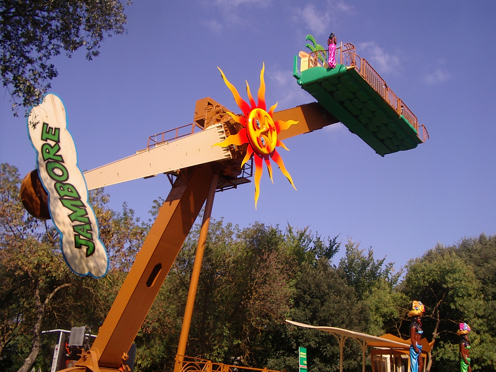 The Jambore, the former Nuvola of high Gardaland 30 meters realized from the firm HUSS and restored from the firm SBF